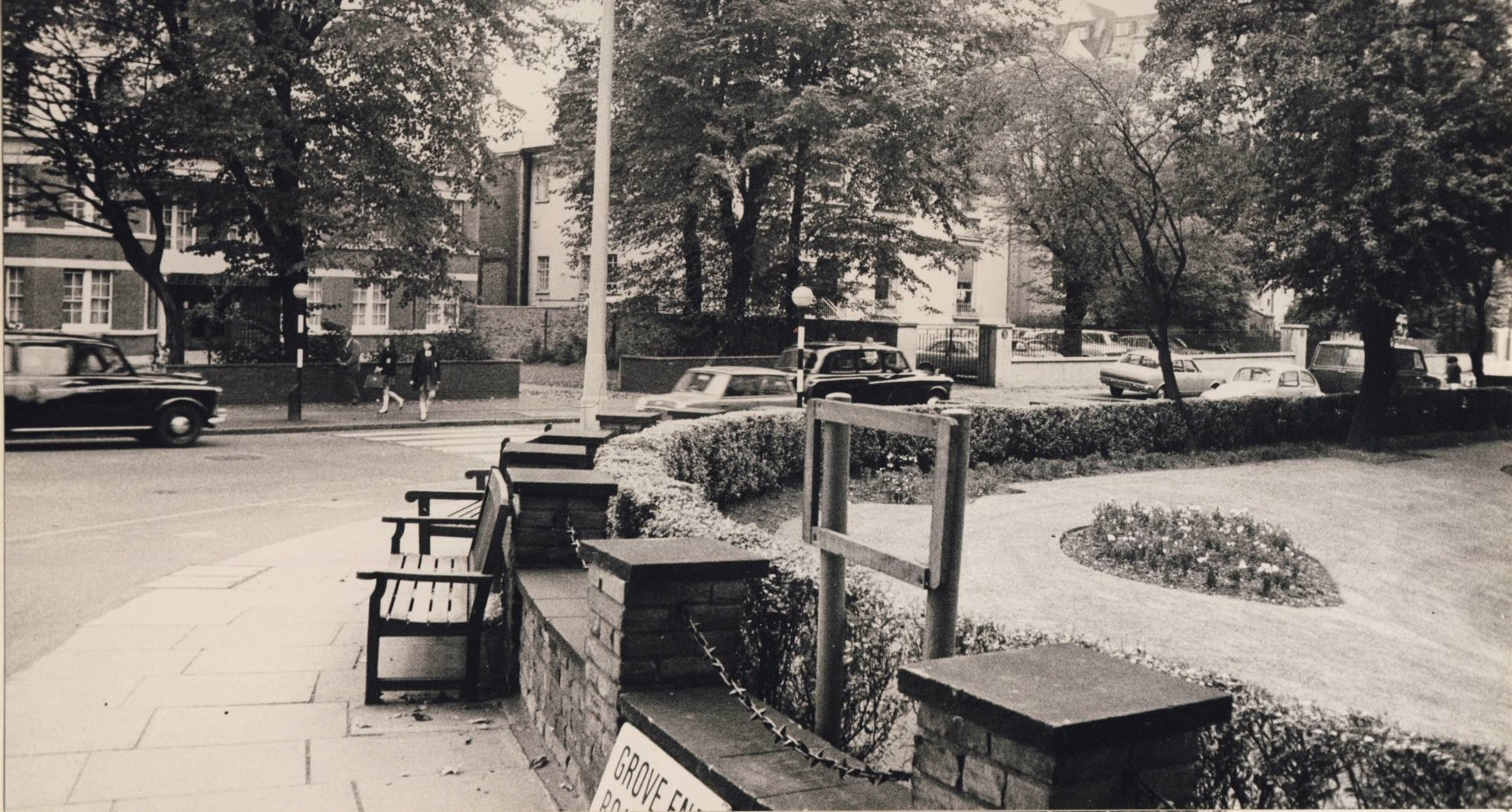 Abbey Road, London, with white Volkswagen